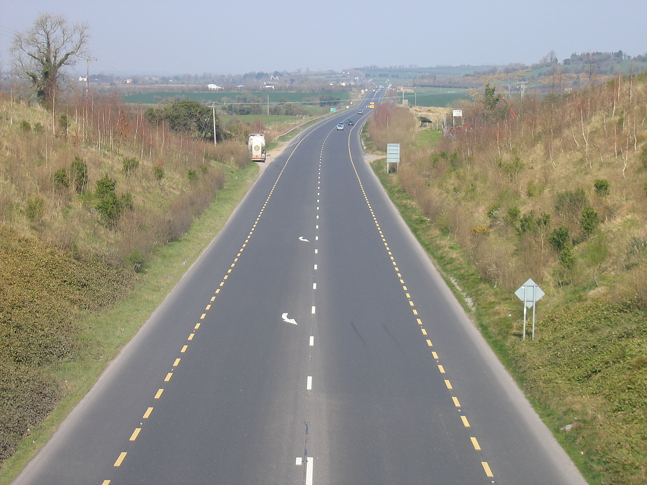 The N9 Moone-Timolin by-pass in County Kildare, Ireland